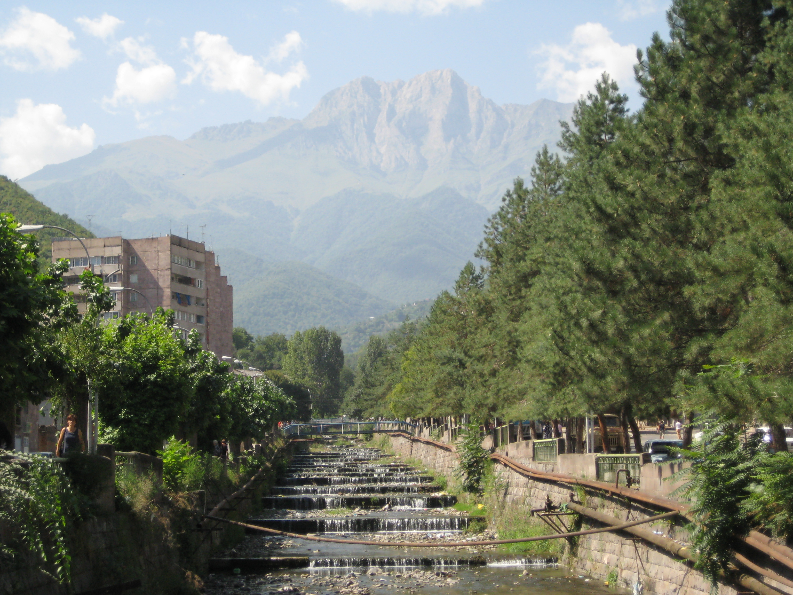 View of Khustup Mountain from Kapan downtown area